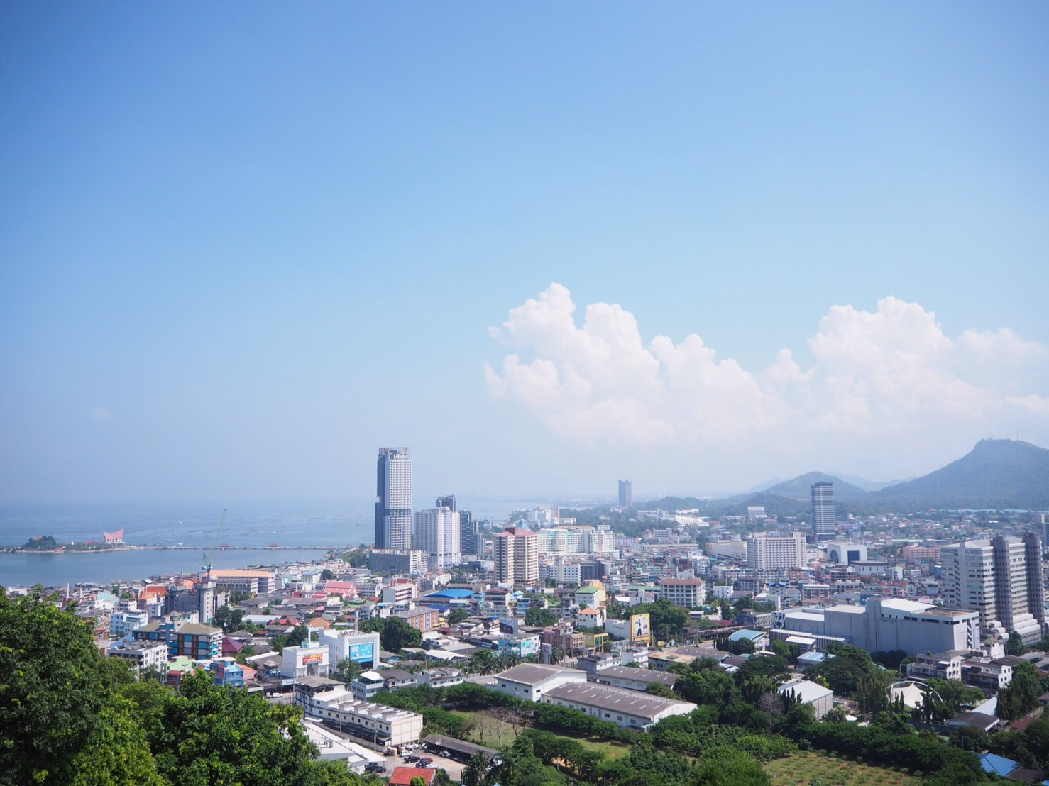 Si Racha city